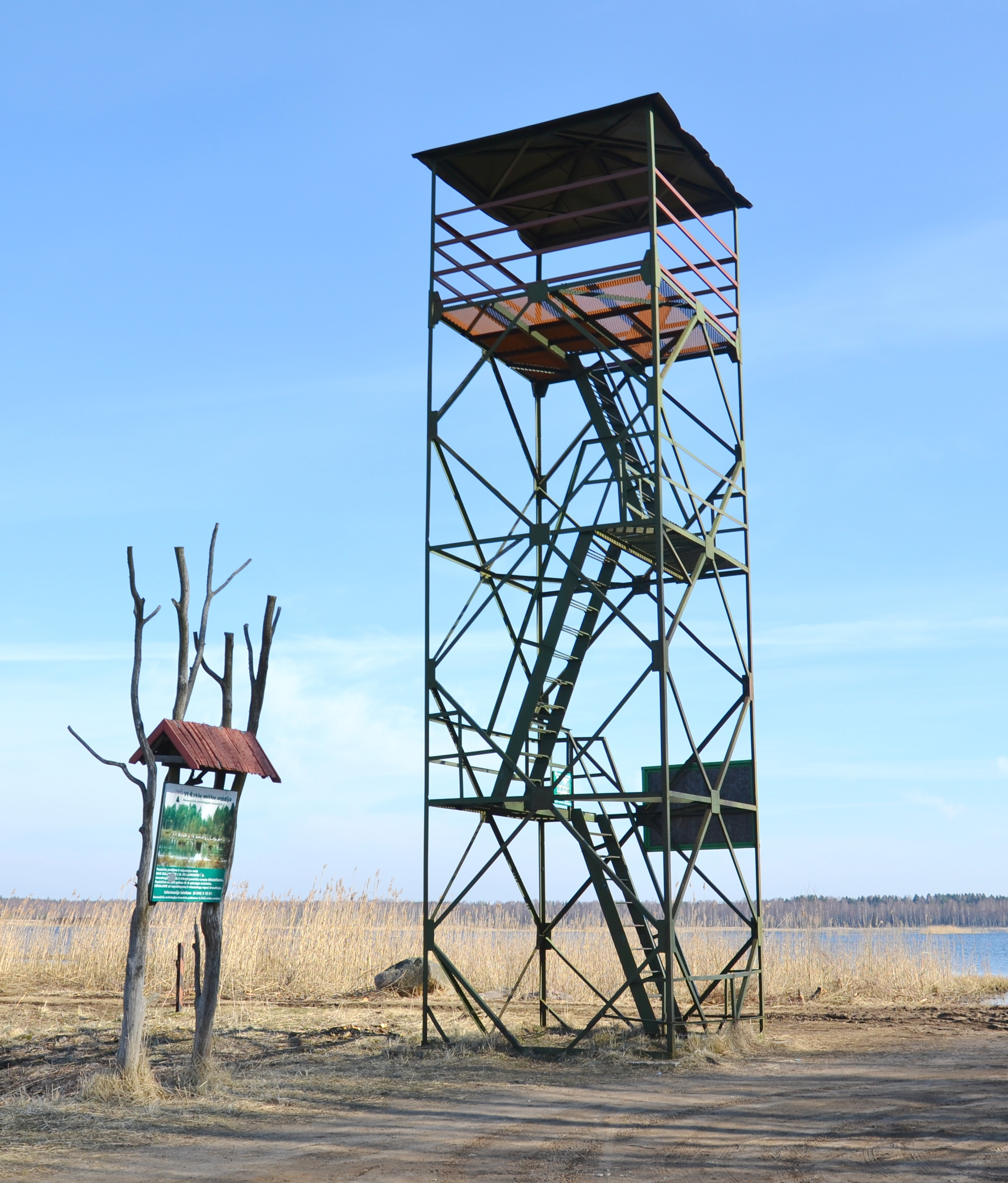 View Tower in Novaraistis Ornitological Nature Reserve, Lithuania